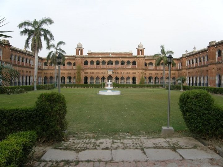 Classrooms are mainly divided in two sections, Primary (class 1 to class 7) and Secondary (class 8 to class 12). This is the photograph of Secondary section building, built in 1905.